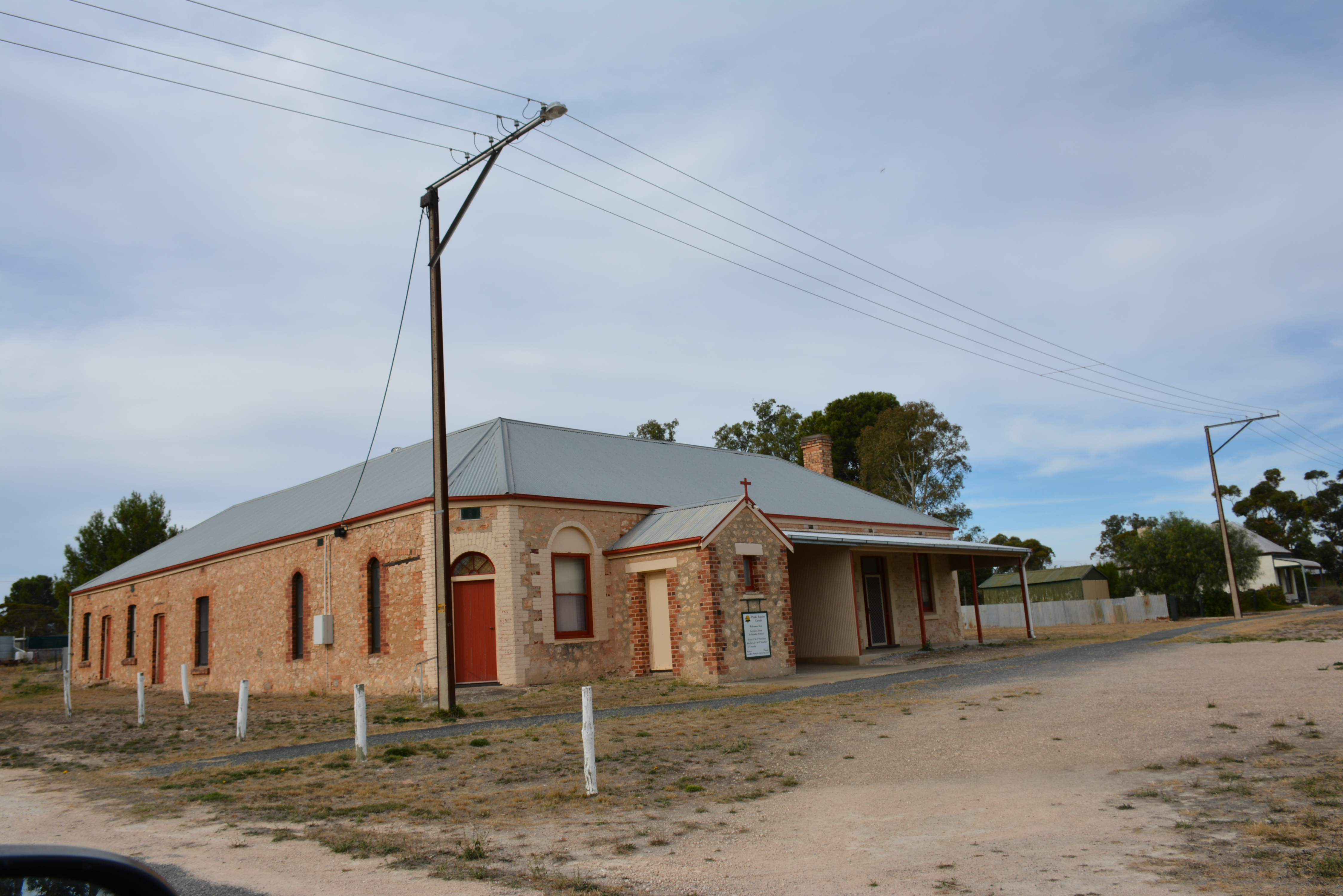 The Baptist Church at Peake, South Australia. The stone building was built as a bakery, and later converted for use as a church.